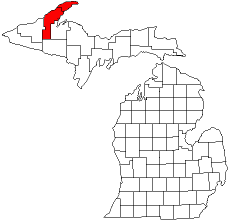 Map of Michigan highlighting the Houghton Micropolitan Area. Created with the GIMP. Made by User:Acntx.